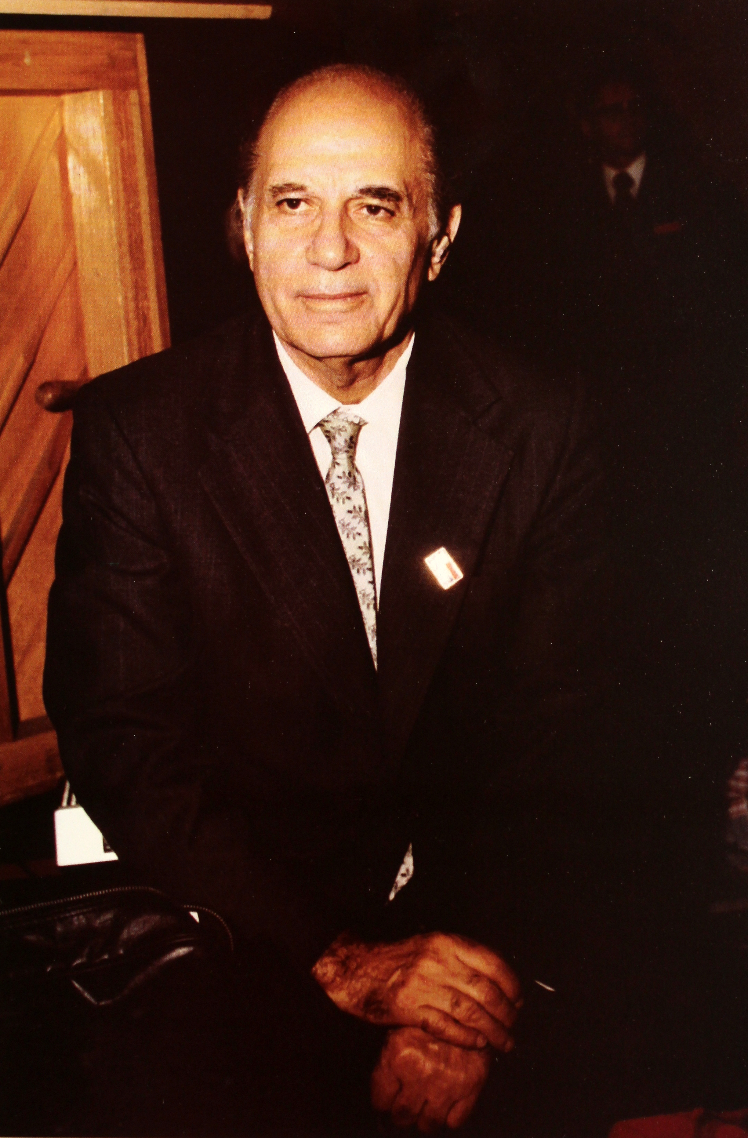 The making of this file was supported by Wikimedia Armenia.